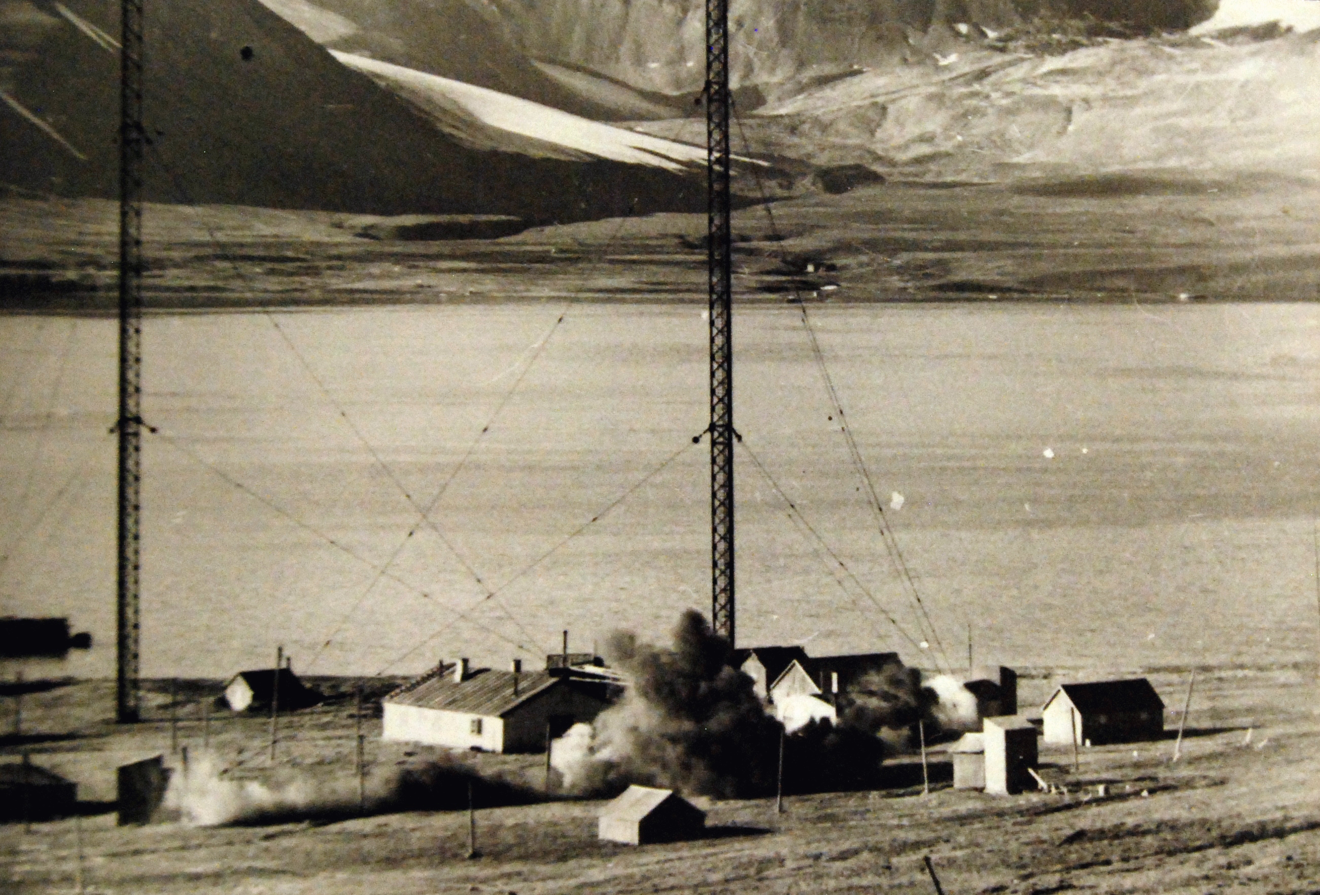 Lot 11609-3: Operation Gauntlet, August-September 1941. Allied Landing on Spitzbergen: Canadian and British and Norwegians stop enemy fuel source, bringing rescued Norwegians to Britain. Shown: Demolition by Royal Canadian Engineers of wireless station. The wireless stations were kept going to the last, sending messages to Germany. Office of War Information Photograph. (2015/10/23).